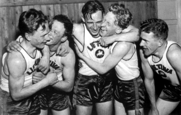 Lithuania national basketball team members after defeating the Italy squad. From left: Zenonas Puziniauskas, Pranas Talzūnas, Feliksas Kriaučiūnas, Juozas Žukas and Leonas Baltrūnas. The knight riding the horse painted on the national team jersey is the inter-war version of Vytis.